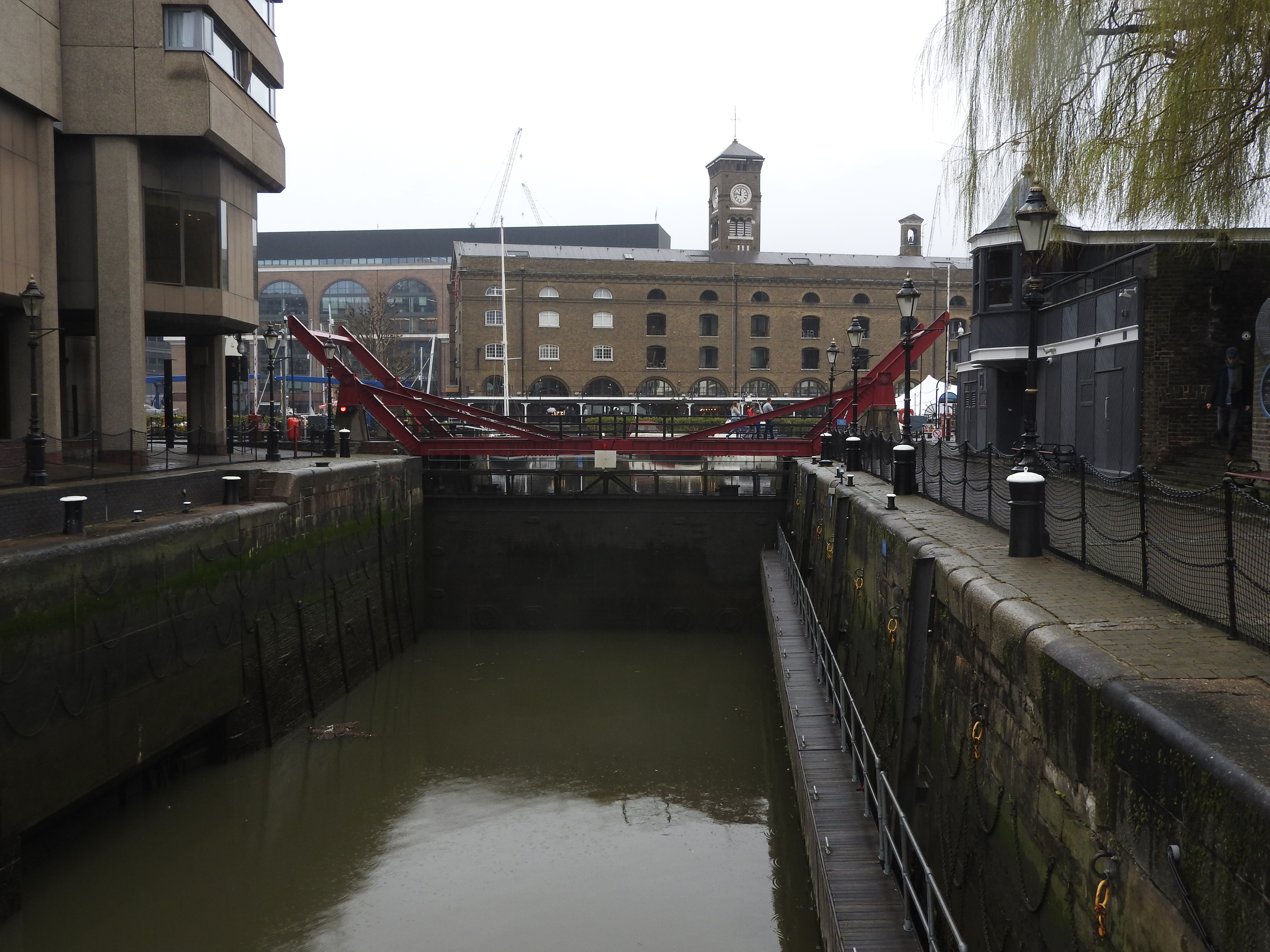 St Katharine Docks London.